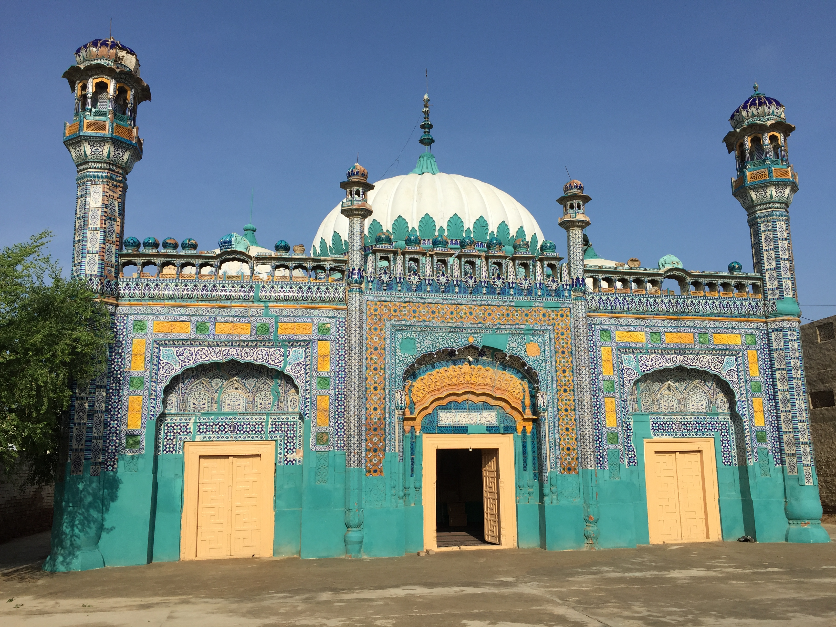 Masjid Deen Muhammad Khan This is a photo of a monument in Pakistan identified as the PB-U-72